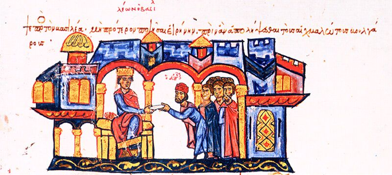 Leon VI with a Bulgarian delegation, Madrid Skylitzes, fol. 109r, detail